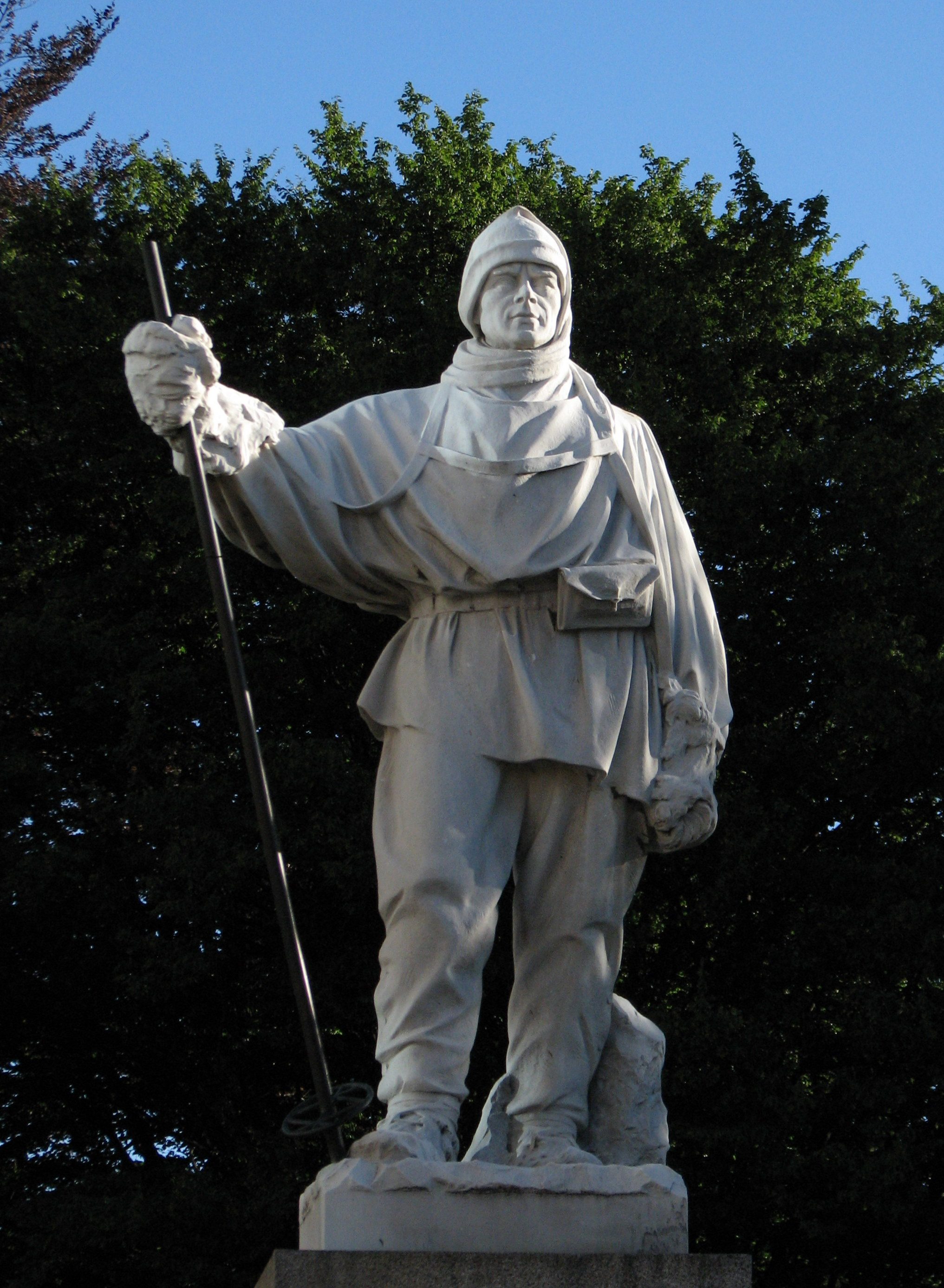 Scott Statue, depicting Robert Falcon Scott, by Lady Kathleen Scott. It is located in corner of Worcester Street and Oxford Terrace, Christchurch, New Zealand. New Zealand Historic Places Trust Register number: 1840.